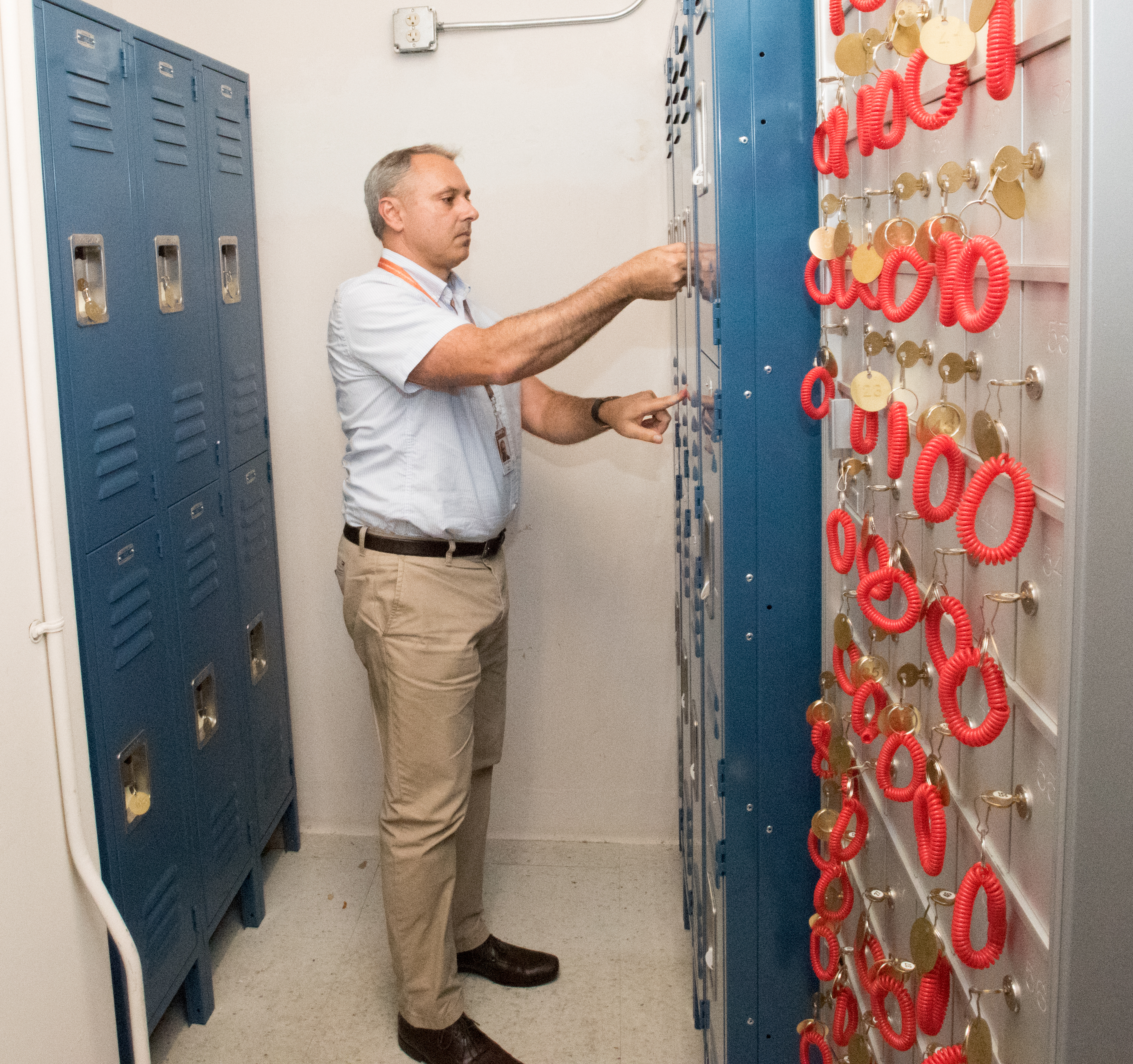 Thompson Reuters’ Paul Simao secures his cellular phone before entering the U.S. Department of Agriculture (USDA) National Agricultural Statistics Service (NASS) lockup facility. for a briefing about cotton ginnings, cranberries, and crop production, in Washington, D.C., on Thursday, August 10, 2017. Before entering the Lockup facility, visitors are given a briefing on NASS history and processes, then given a chance to ask questions. Inside the facility, visitors and staff are required to remove and secure electronic communication devices before entering. Statisticians who are secured in the facility over night generate the reports. The finished reports are released to press journalists two hours early, so they can write their stories within a data secure room. Their stories are sent and the reports are made publicly available, at 12 noon. USDA Photo by Lance Cheung.